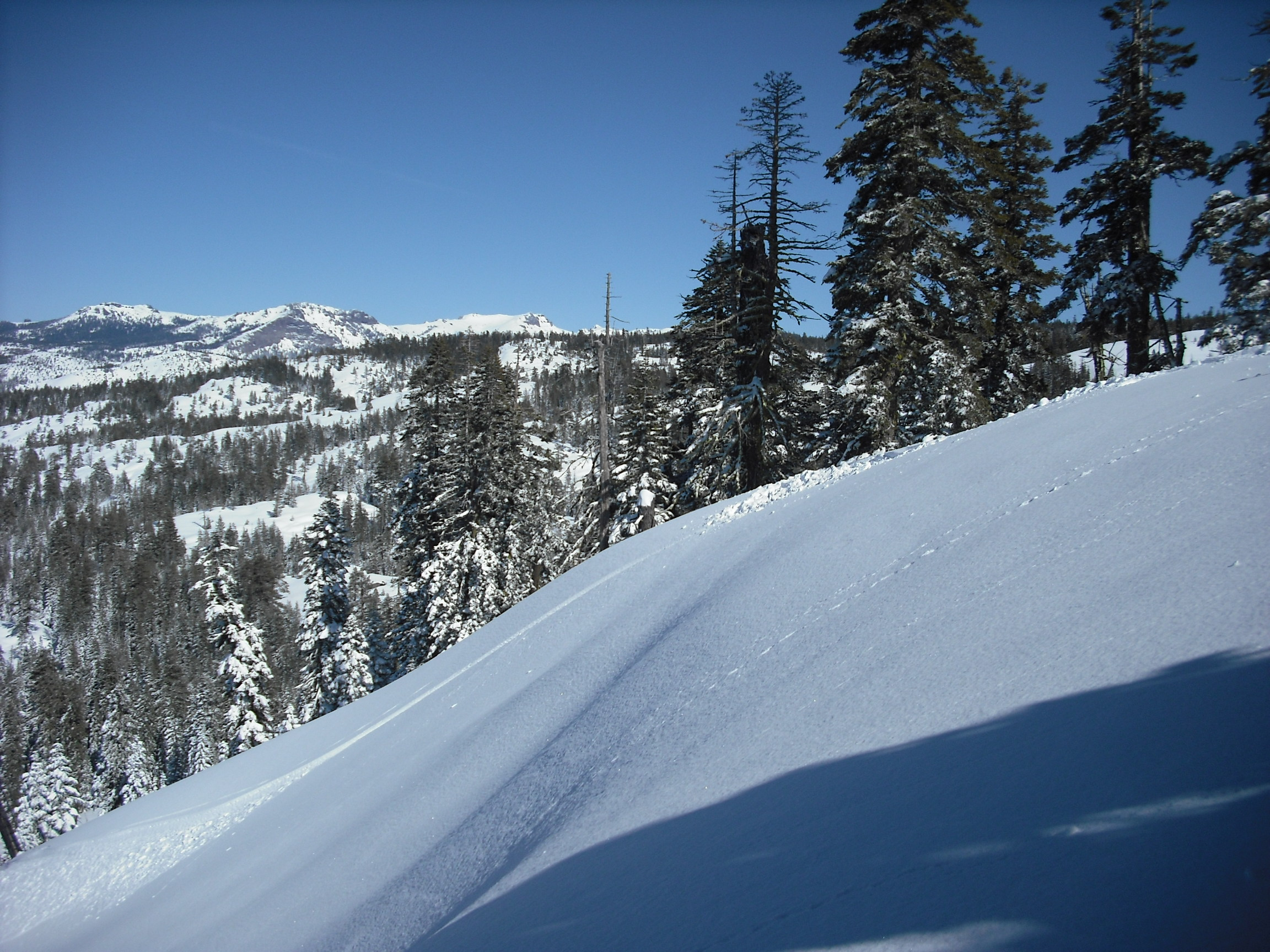 top of Red Tail Run and Iron Mtn California near Kirkwood ca